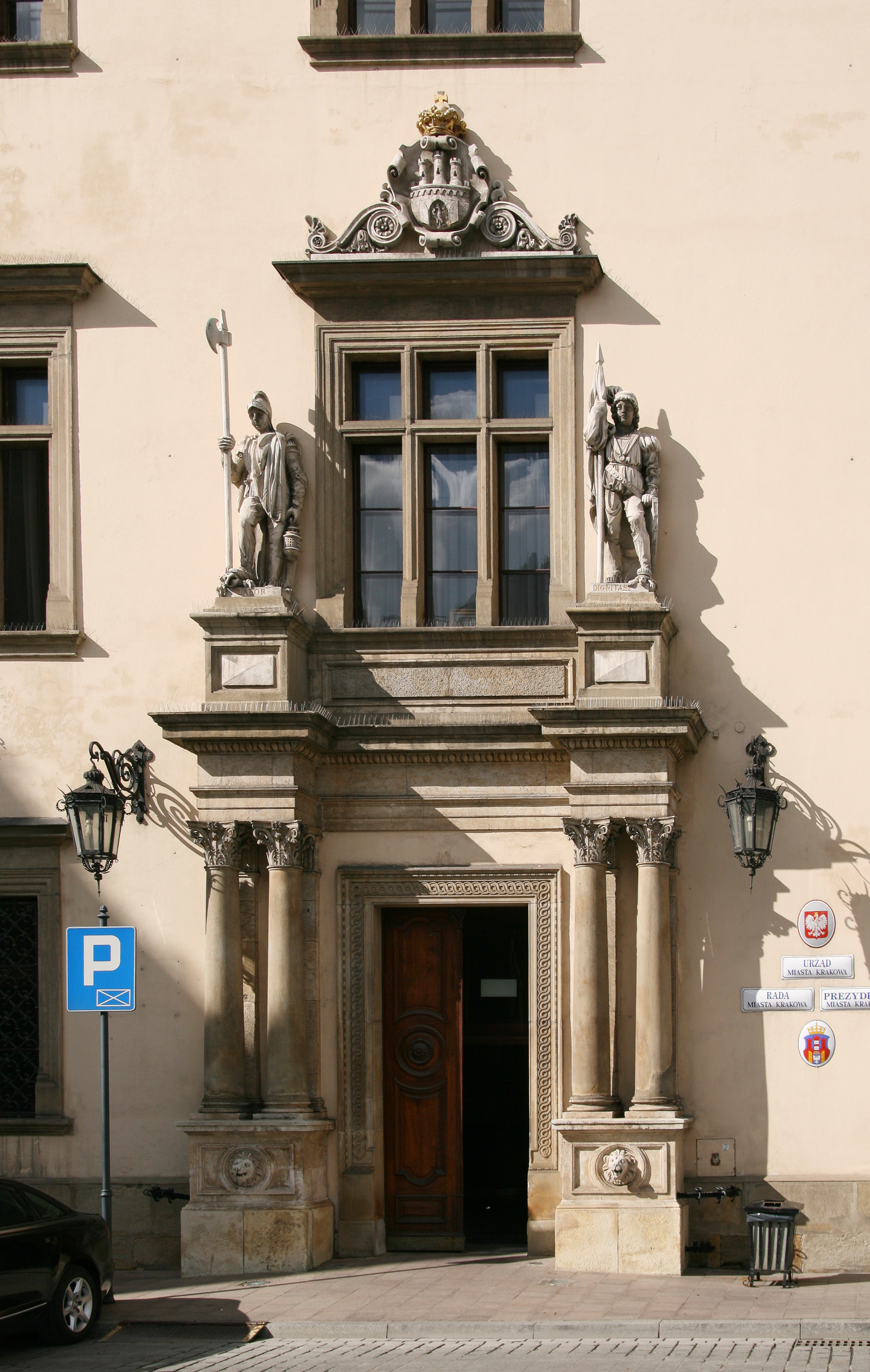 Wielopolski Palace, Krakow